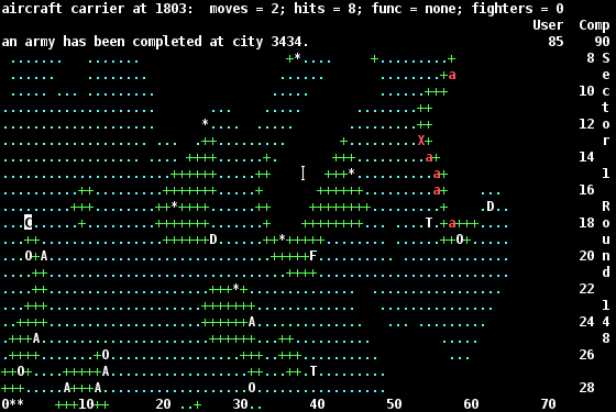 Empire 5.1 on a KDE Linux system. cropped from this image.